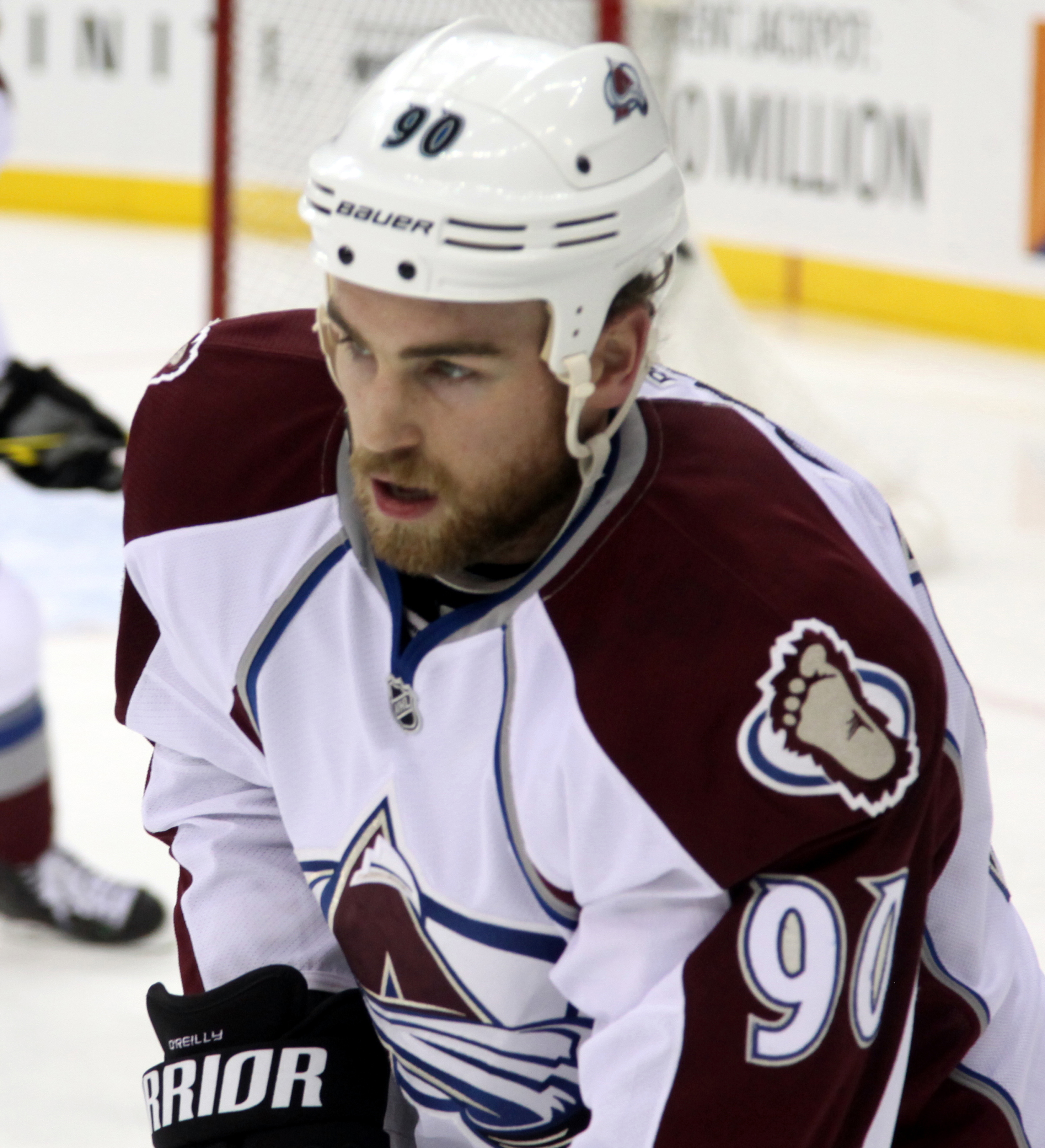 Ryan O'Reilly in November 2014.